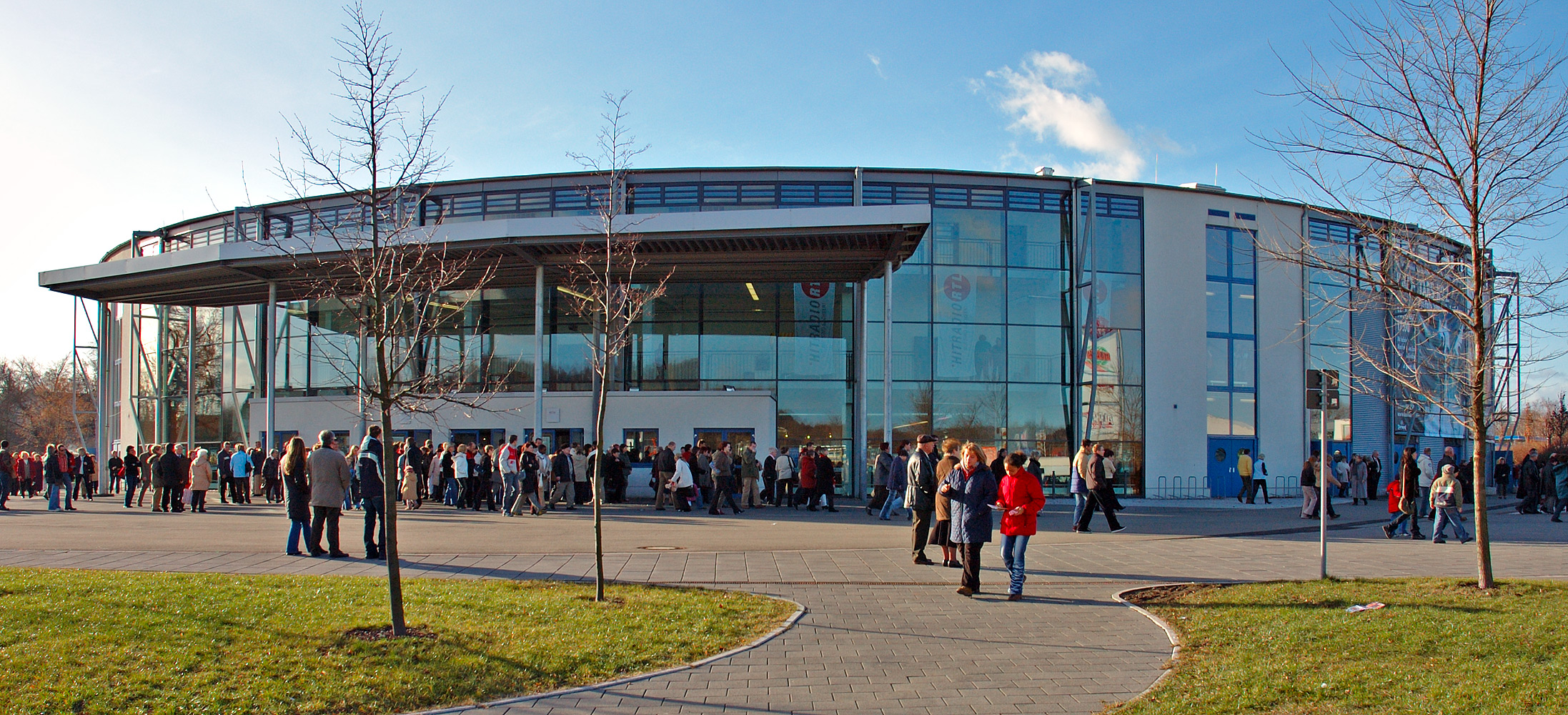 This image shows the civic centre of Zwickau (Saxony, Germany).